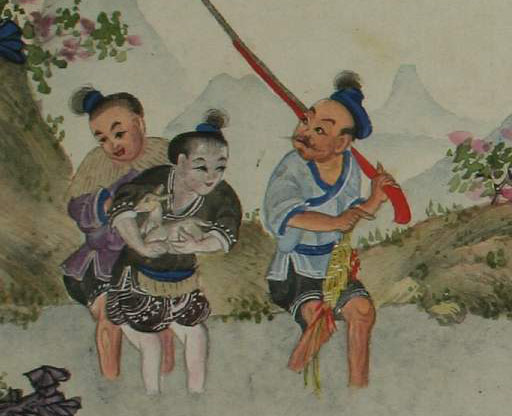 Ethnic_ranjia